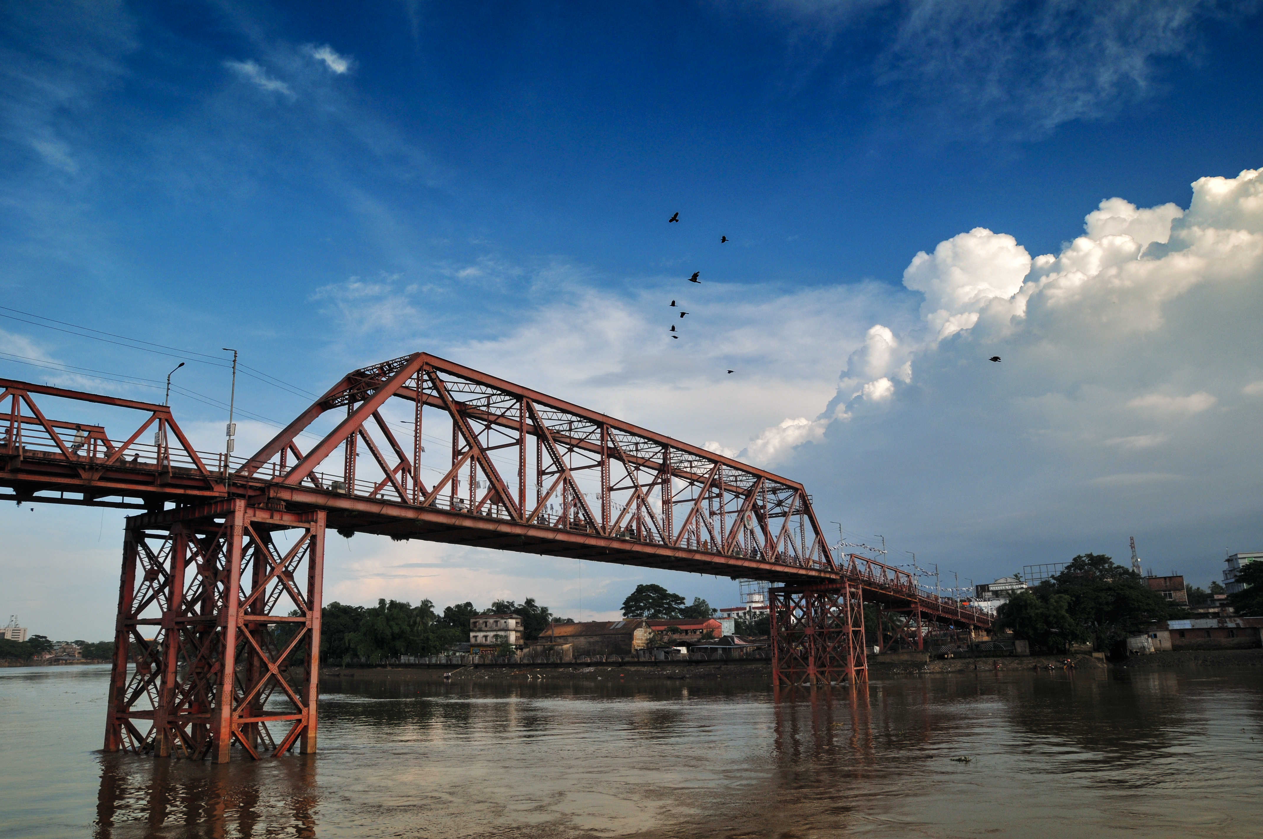 Keane Bridge